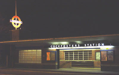 Cockfosters Station Exterior, taken by Globe199, March 2003